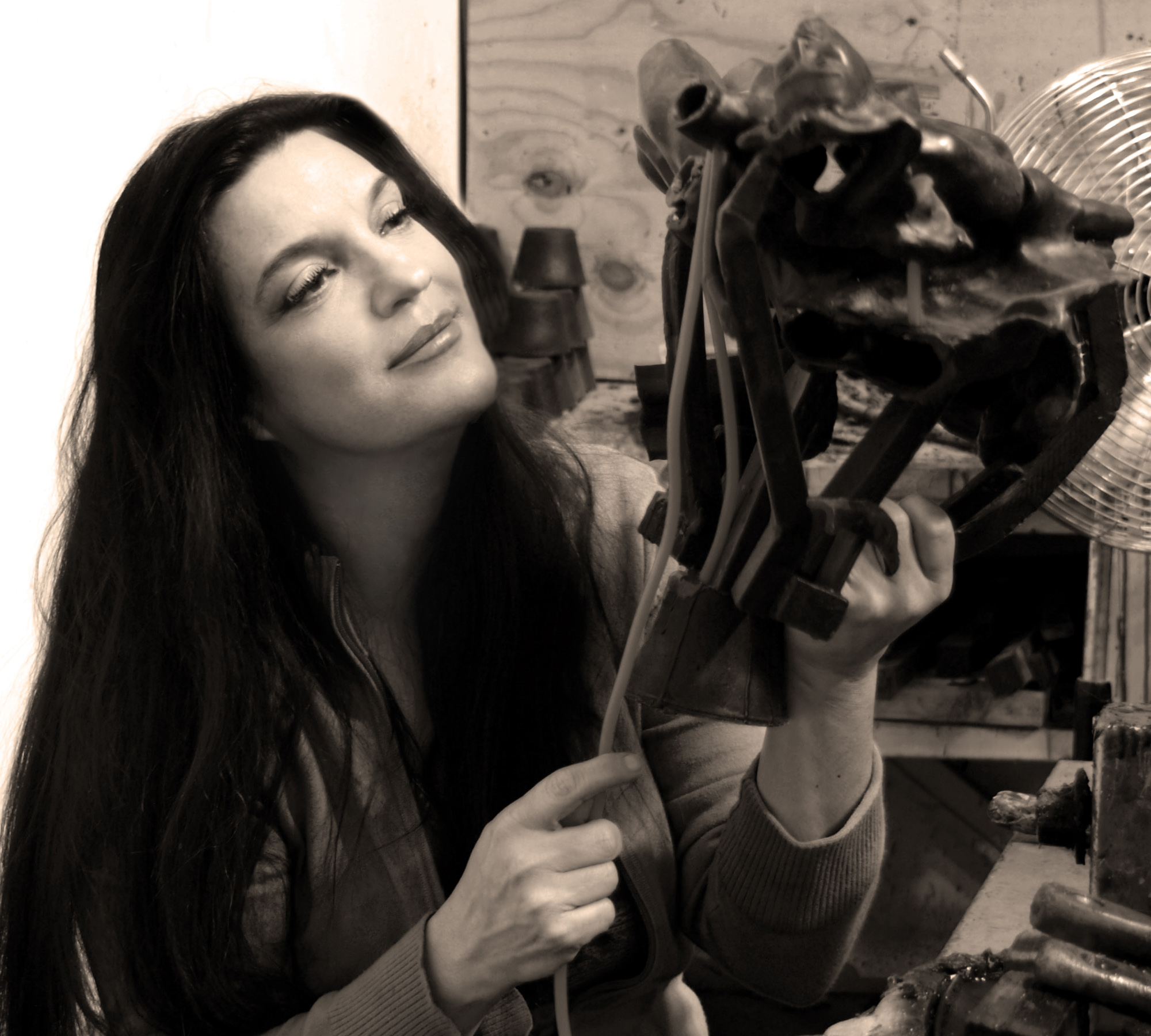 M.L. Snowden working on a wax for bronze